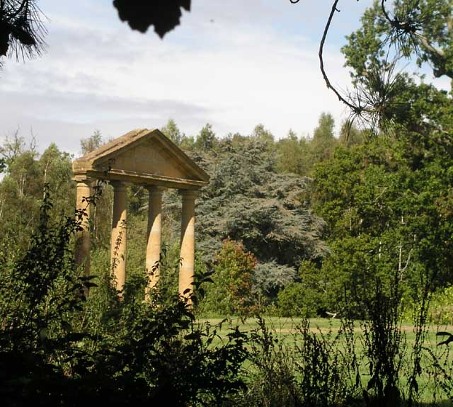 Folly in the grounds of Tyes Place. Seen from footpath 32CR some 20m east of 244440